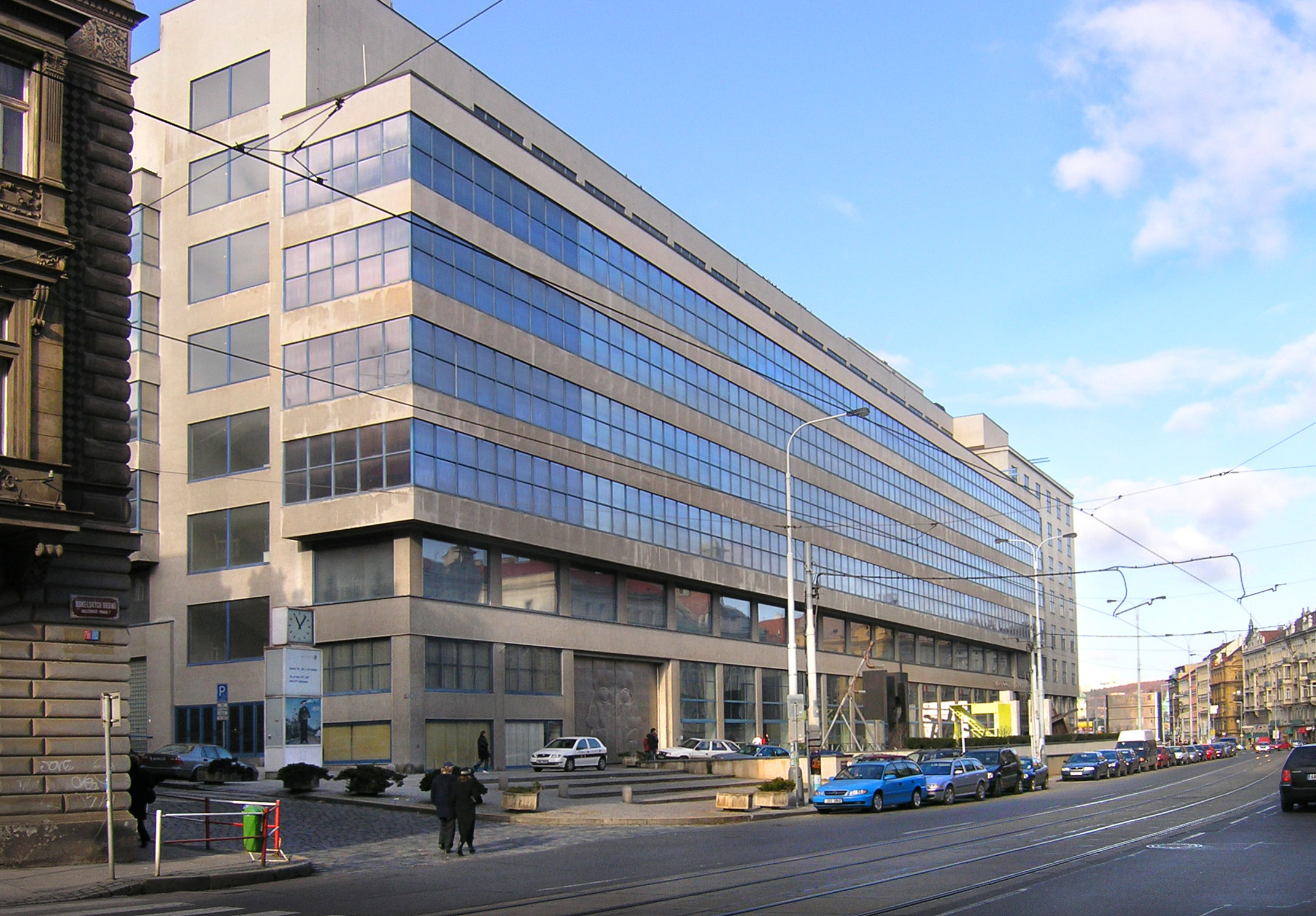 Trade Fair Palace from south, Prague